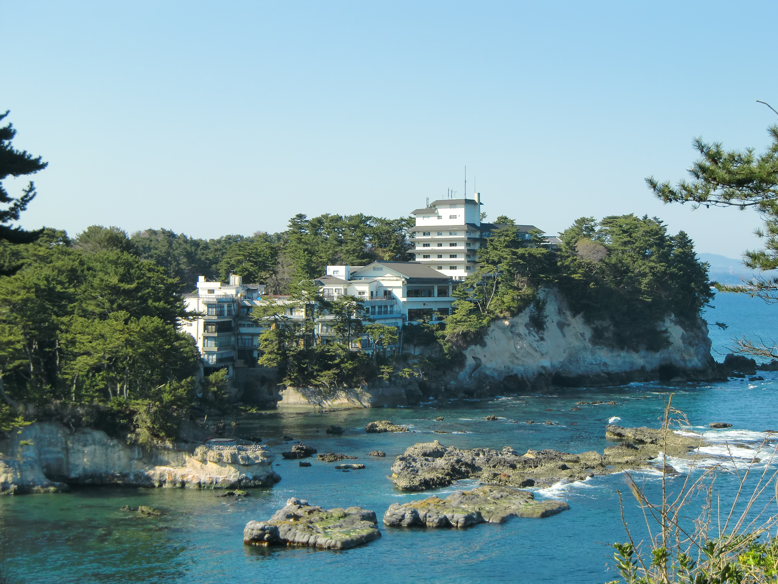 Izura(Itsuura) beach in Kitaibaraki city, Ibaraki prefecture, Japan. This picture was taken in Izura-Misaki park.